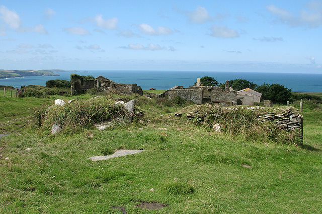 St Teath: Dannonchapel The ruined and relatively remote farmstead which now belongs to the National Trust